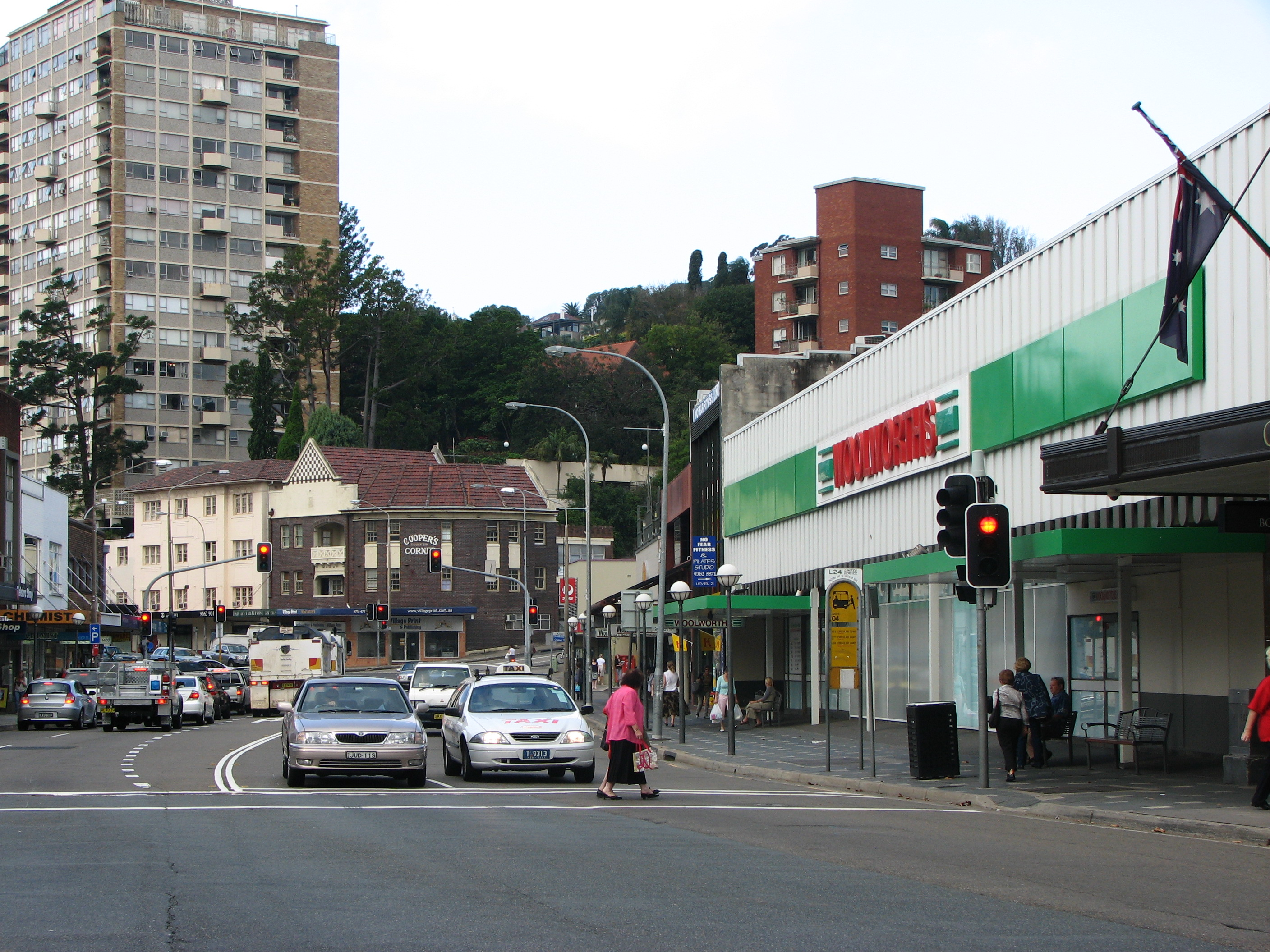 Double Bay, Sydney, New South Wales